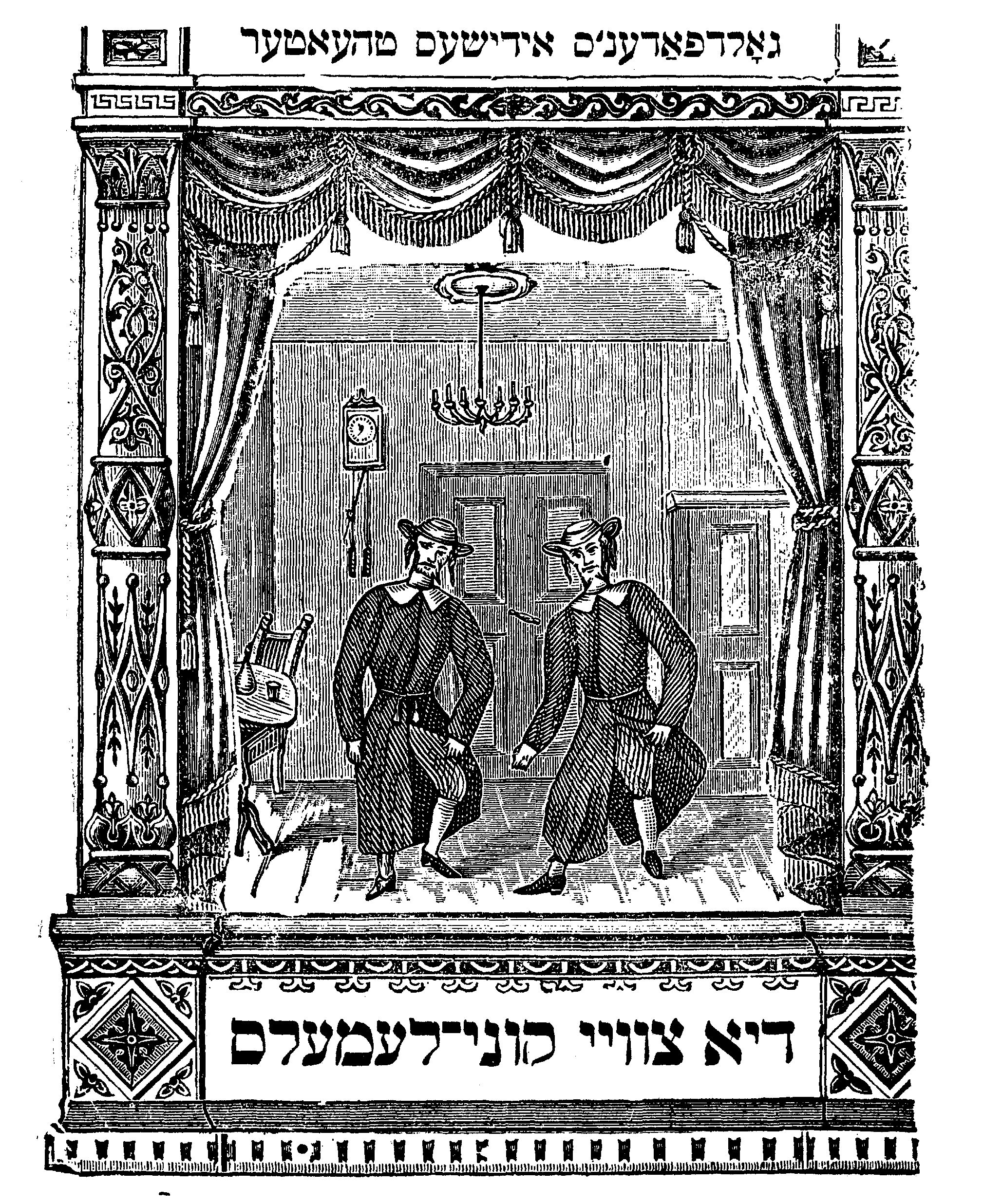 Title page of the play by Goldfaden די צווי קוני לעמעל scanned from a book which is over 100 years